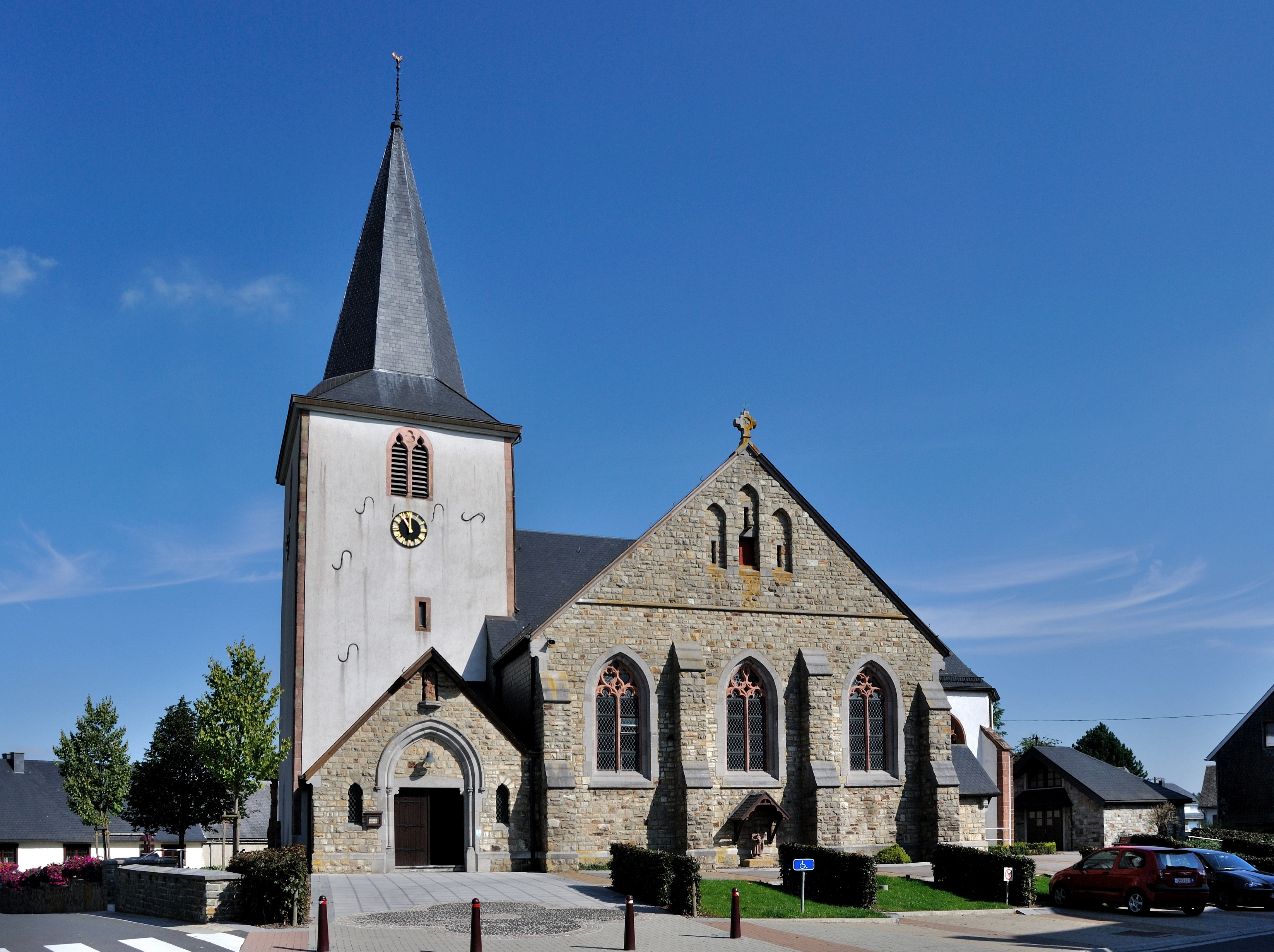 The heritage-protected Saint Eligius Church in the Belgian municipality Büllingen (Province Liège, Wallonia)